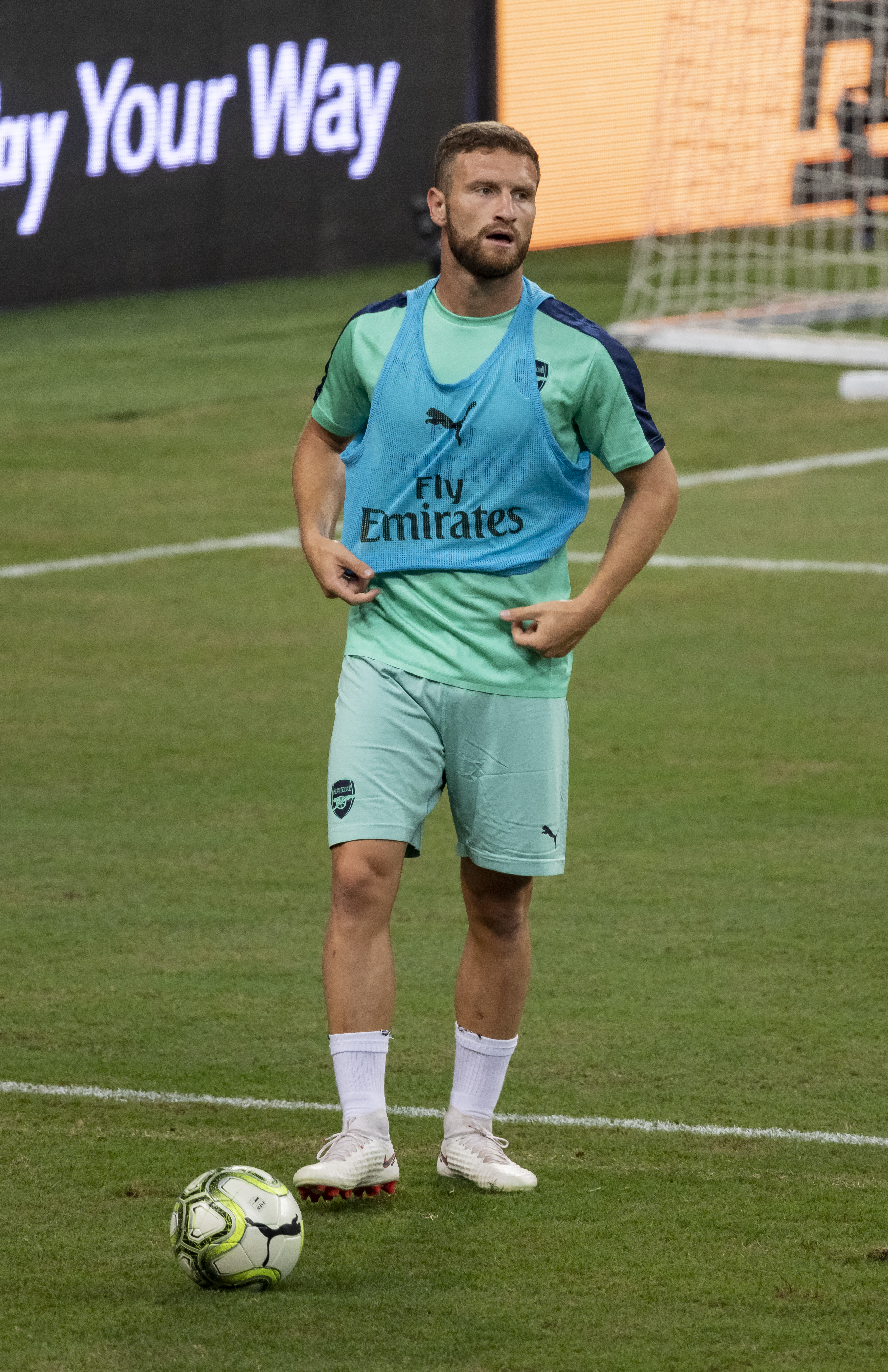 Shkodran Mustafi Arsenal v PSG International Champions Cup 2018 Singapore National Stadium